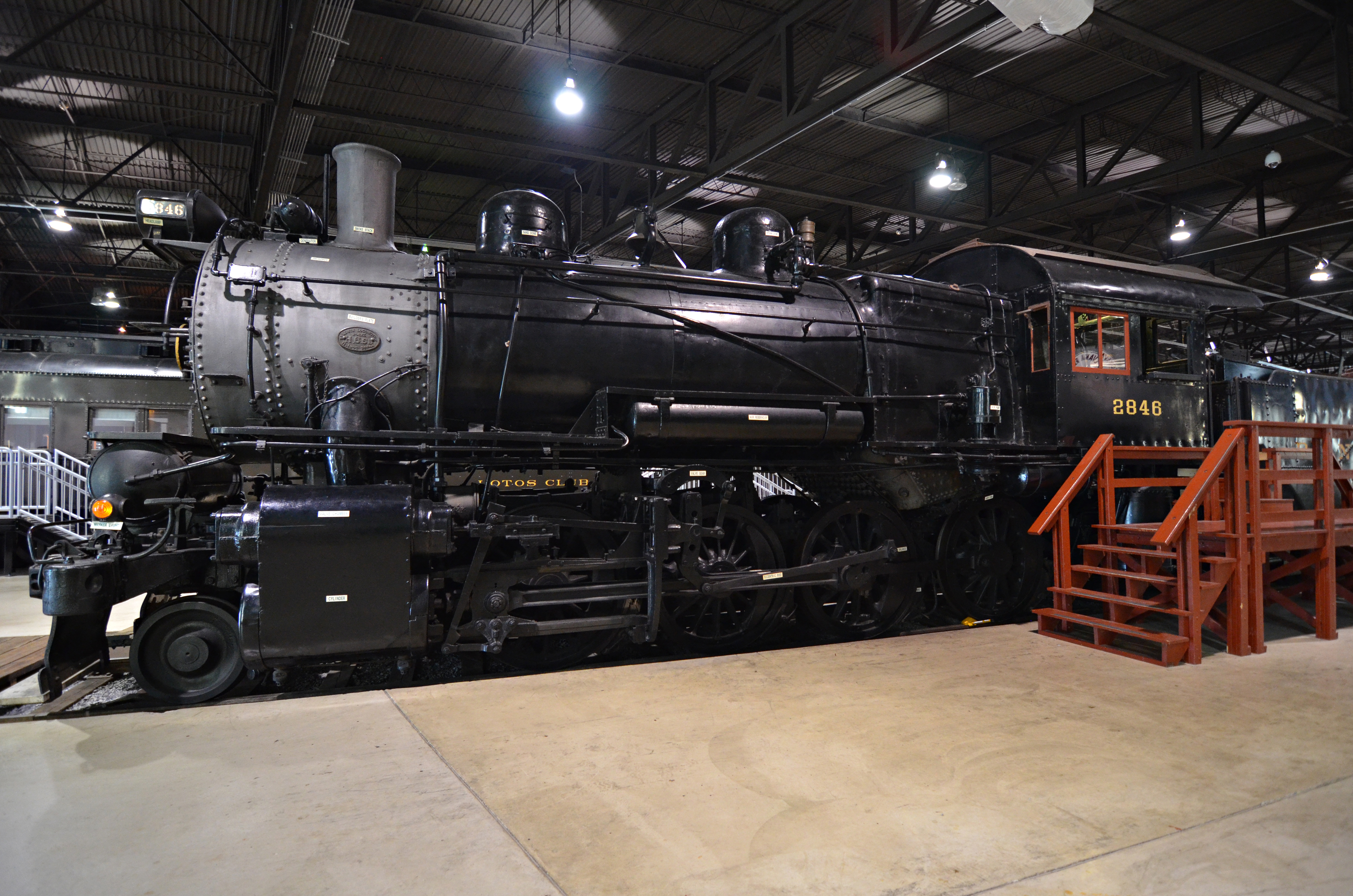 The Pennsylvania Railroad 2846 at the Railroad Museum of Pennsylvania. The car is listed on the roster as RR79.40.9.